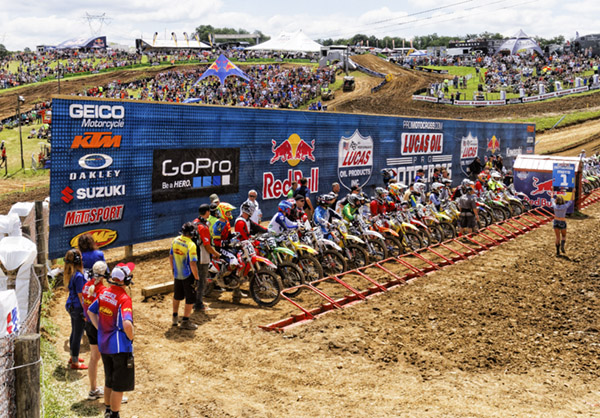 Lucas Oil Pro Motocross at High Point Raceway from June, 2014.